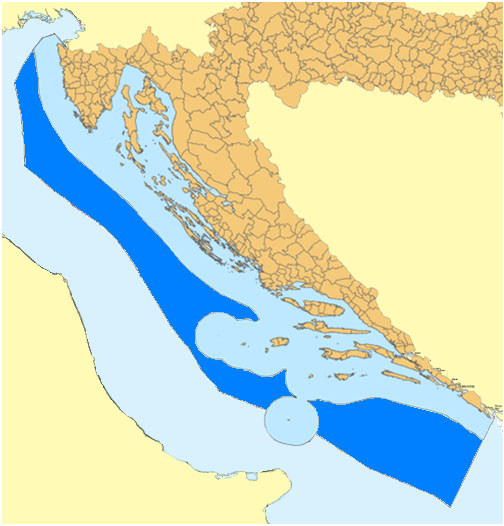 Protected Ecological-Fishery Zone (ZERP)